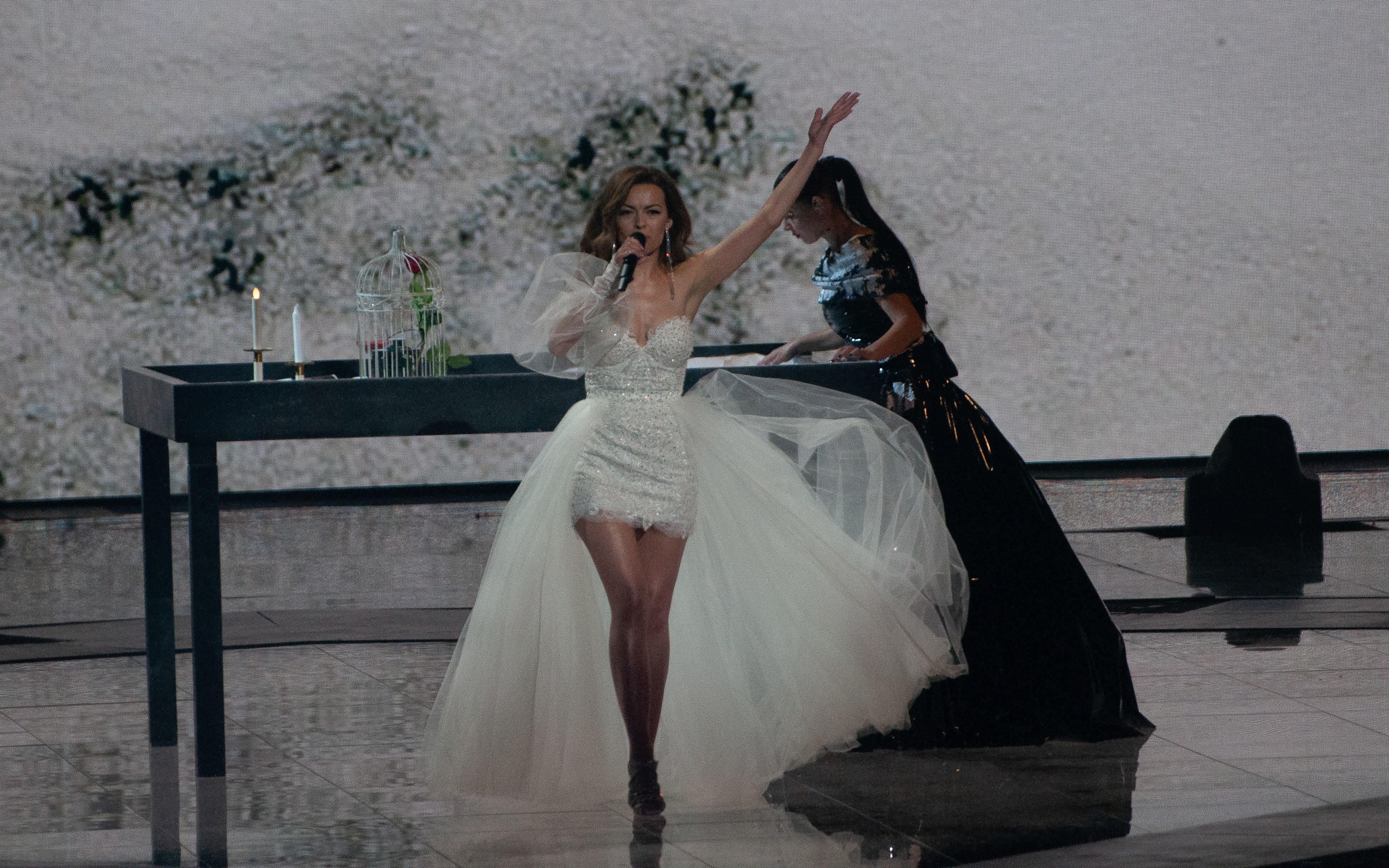 Anna Odobescu at the 2019 Eurovision Song Contest Semi-final 2 dress rehearsal